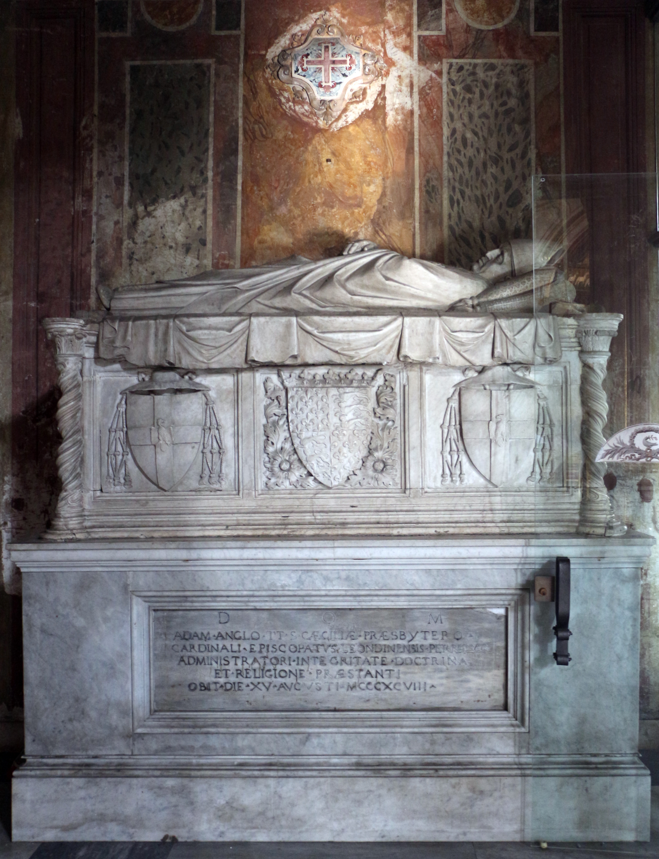 Santa Cecilia (Rome), tomb of Cardinal Adam Easton, attributed to Paolo Romano (Paolo Taccone)